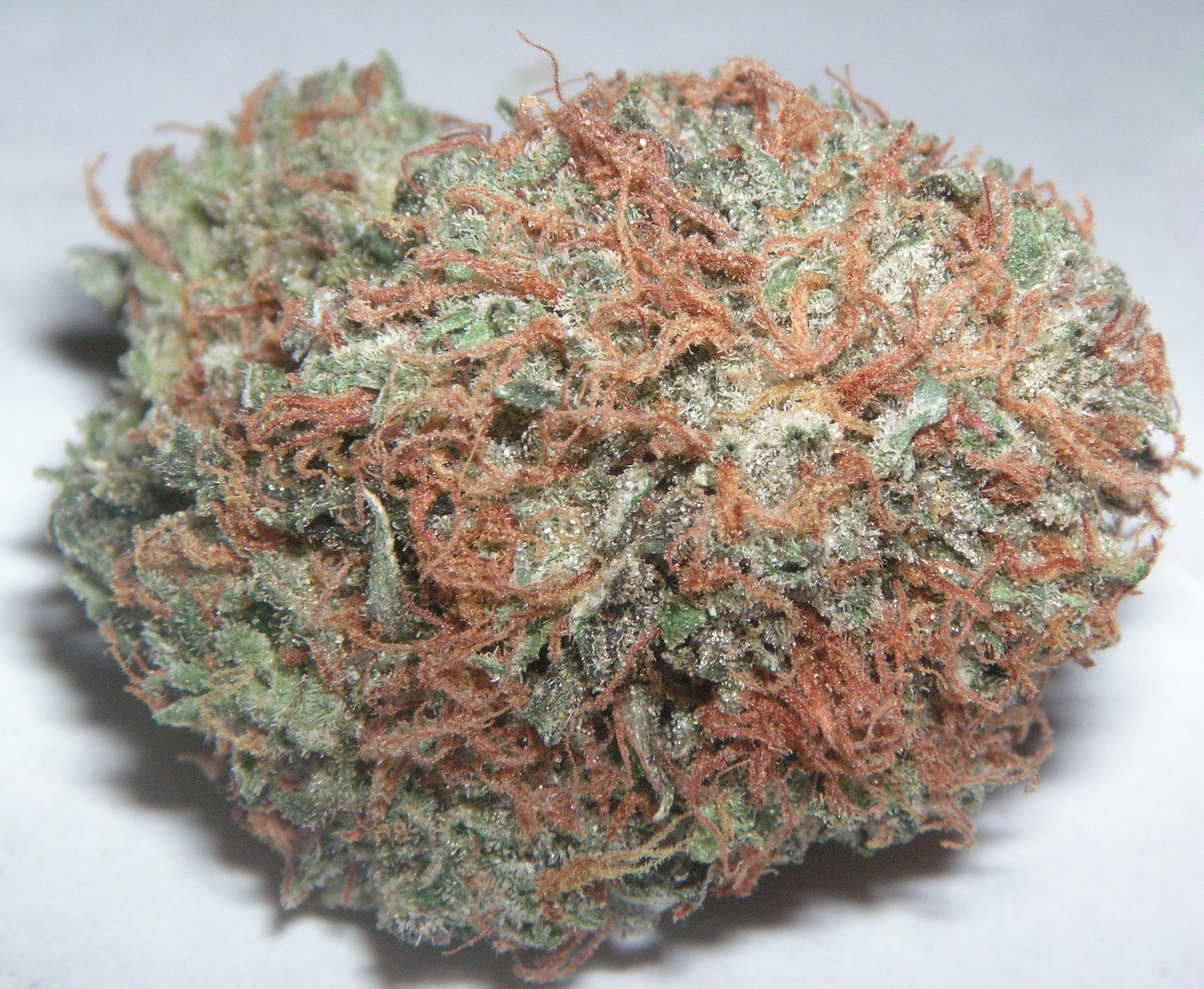 one high-quality "bud " nugget of marijuana